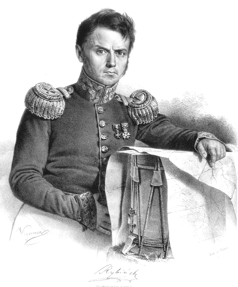 Maciej Rybiński Commander in chief of November Uprising